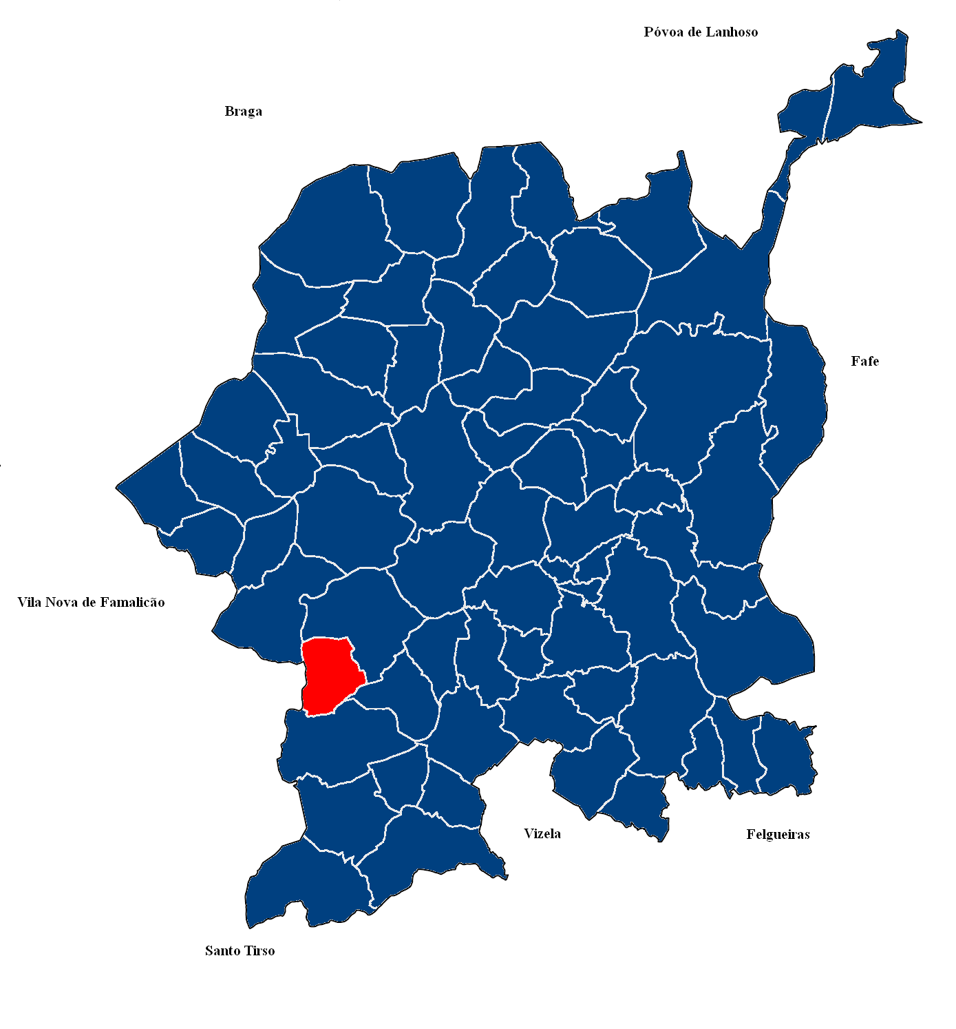 Map of Gondar parish, Guimarães Municipality, Portugal